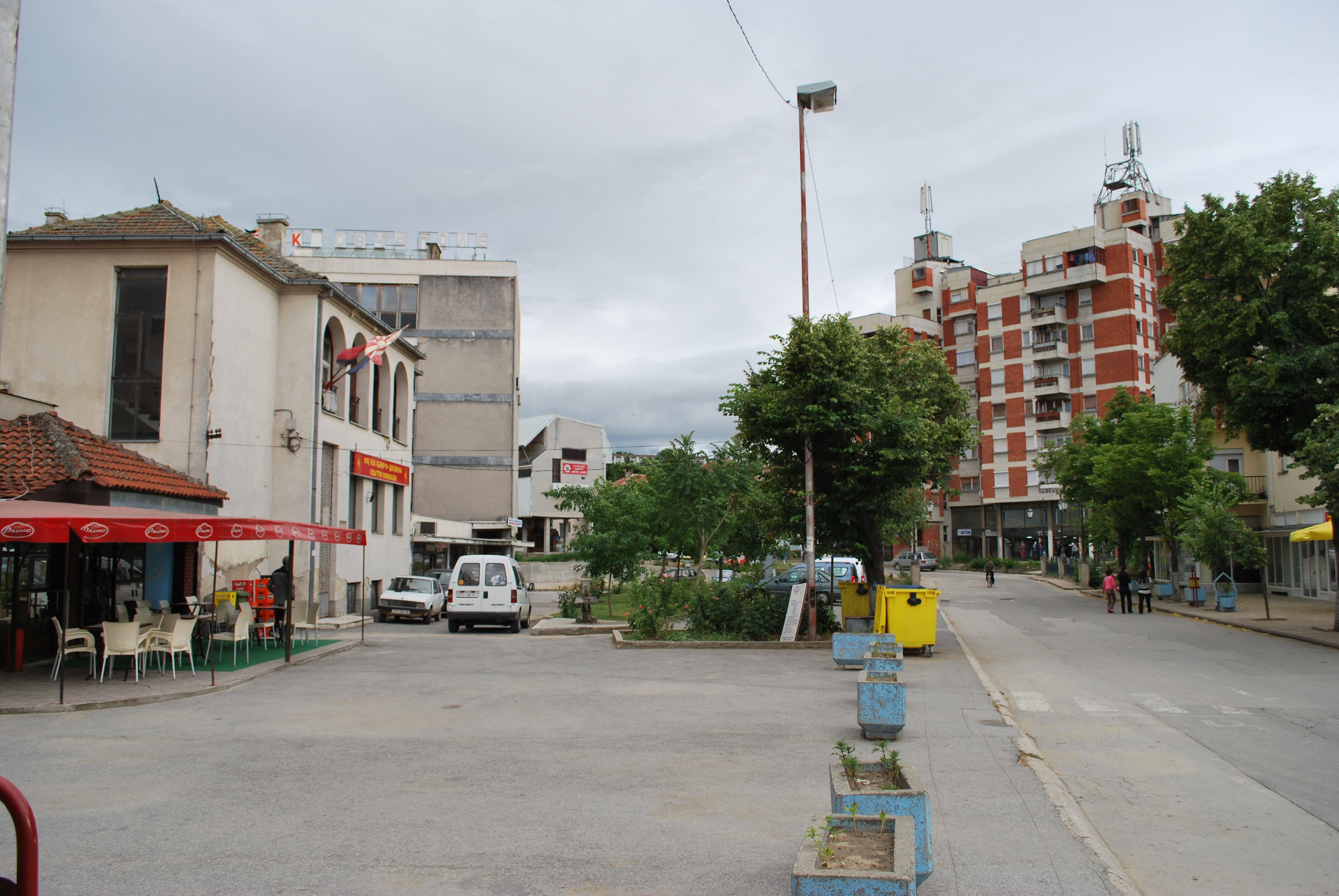 ISveti Nikole, Macedonia